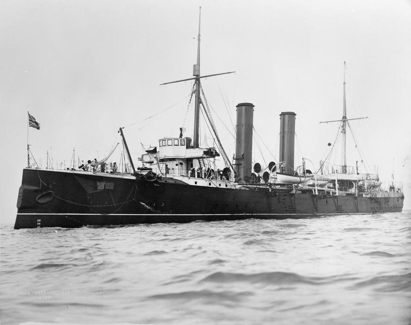 Photograph of British cruiser HMS Indefatigable.